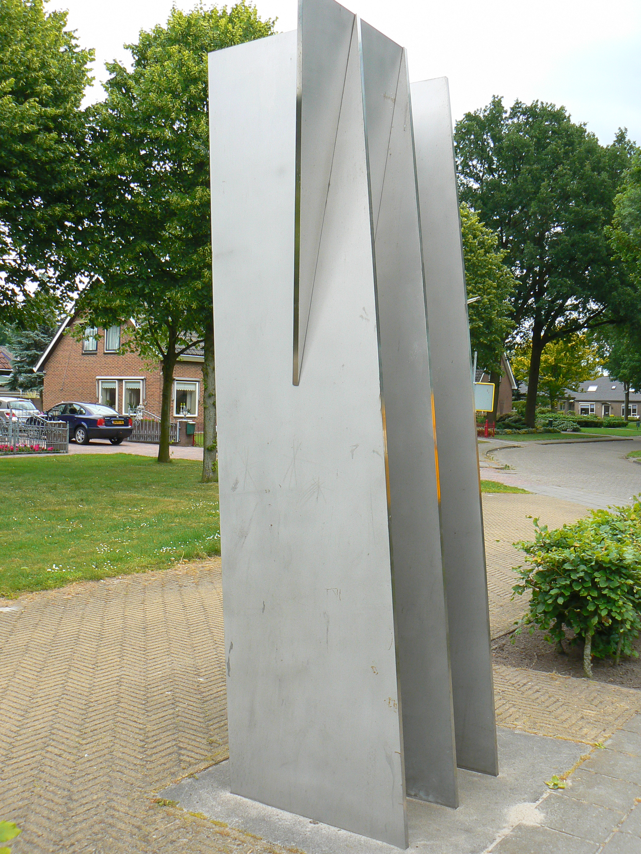 Sculpture/memorial Verzetsmonument (1985) by Paul Hulskamp in Nieuwlande/The Netherlands